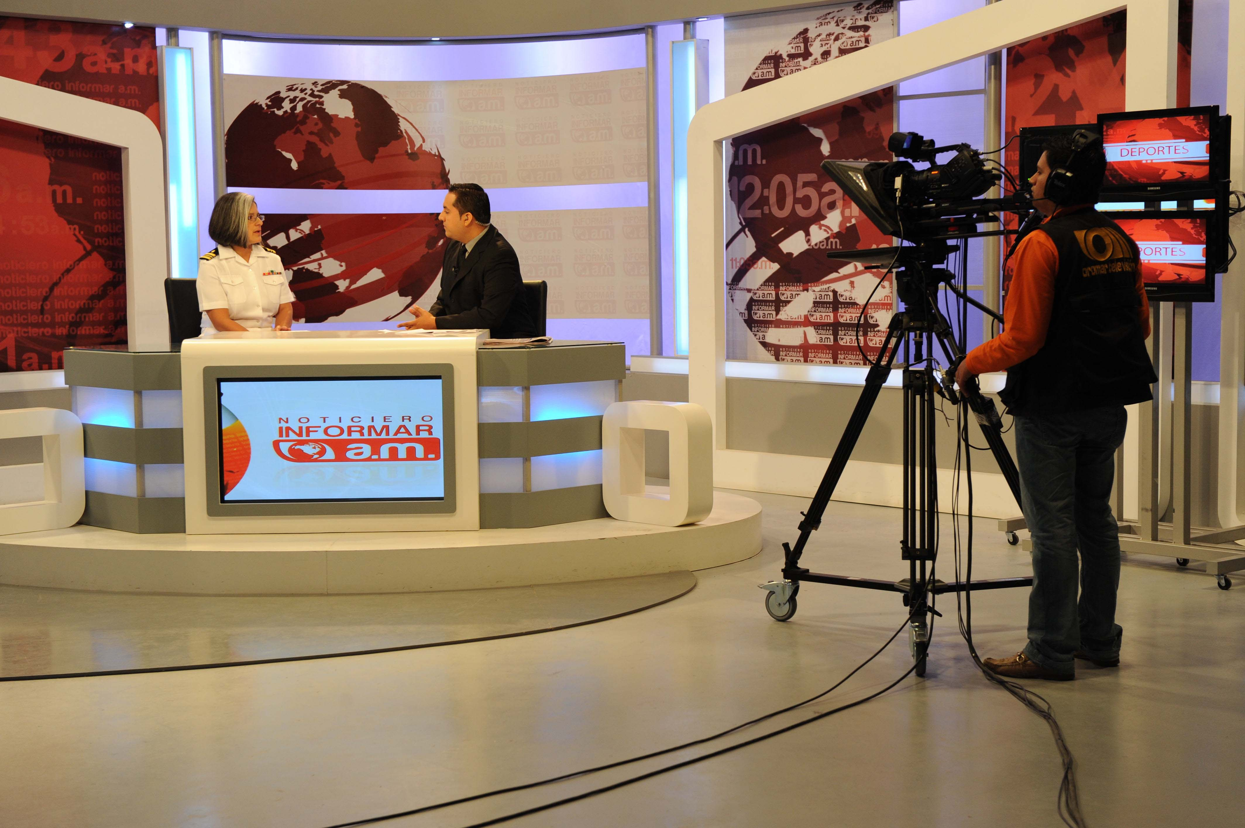 MANTA, Ecuador (May 18, 2011) Lt. Cmdr. Jeanne Jimenez, from Los Angeles, inpatient ward department head aboard the Military Sealift Command hospital ship USNS Comfort (T-AH 20), is interviewed about the Continuing Promise 2011 mission by Arturo Vinueza during a live news program on Oro Mar television. Continuing Promise is a five-month humanitarian assistance mission to the Caribbean, Central and South America. (U.S. Air Force photo by Staff Sgt. Courtney Richardson/Released)